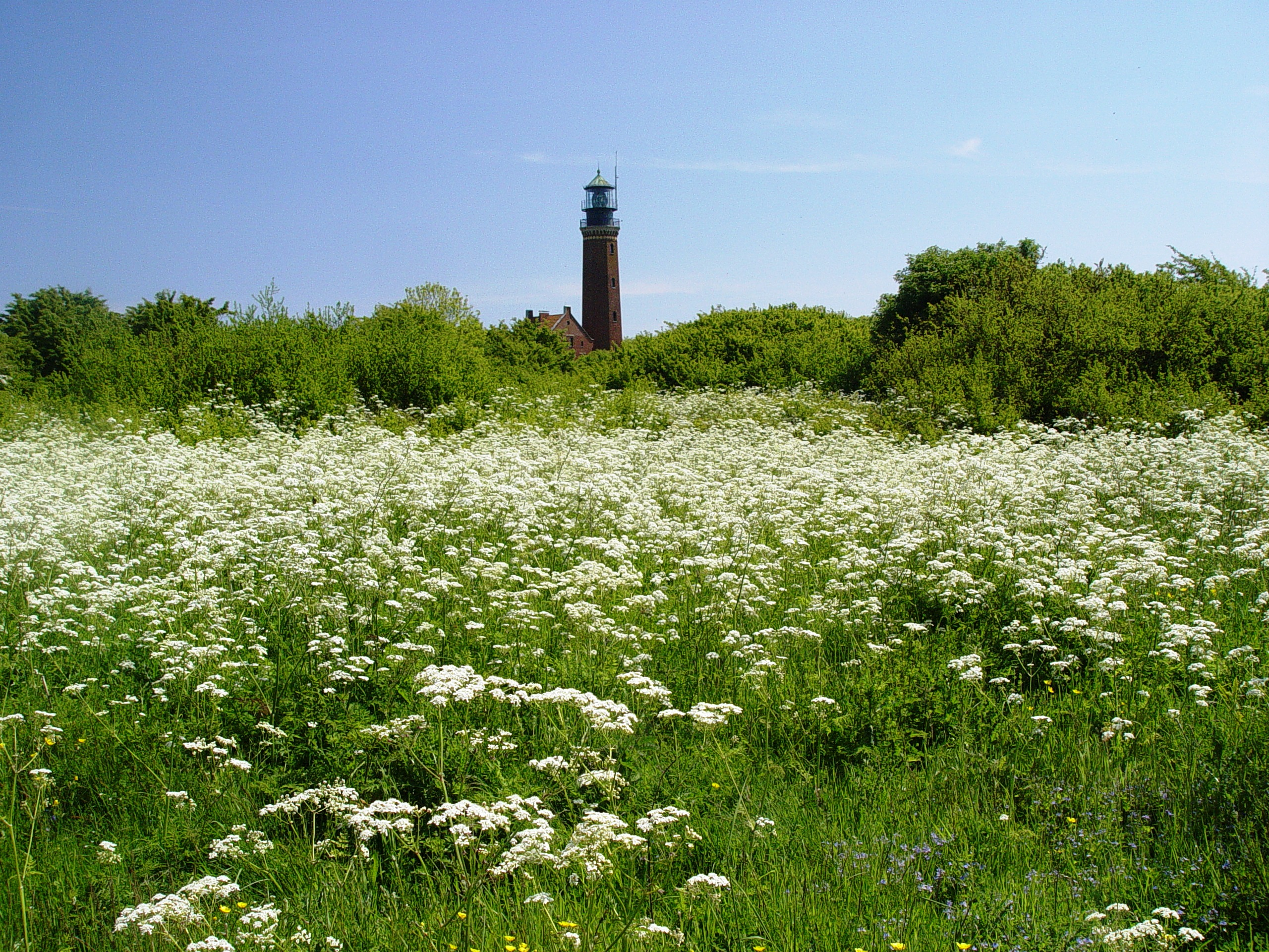 Lighthouse on Greifswalde Oie.